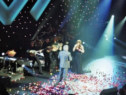 Helena Paparizou with Pashalis Terzis